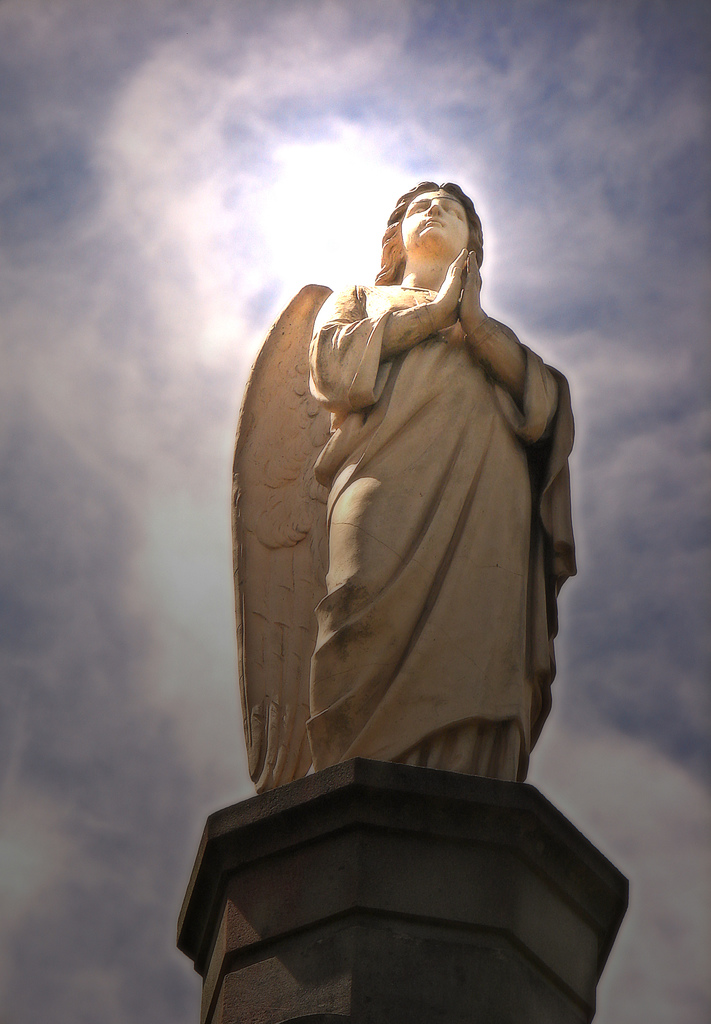 Photo of a statue of an angel.